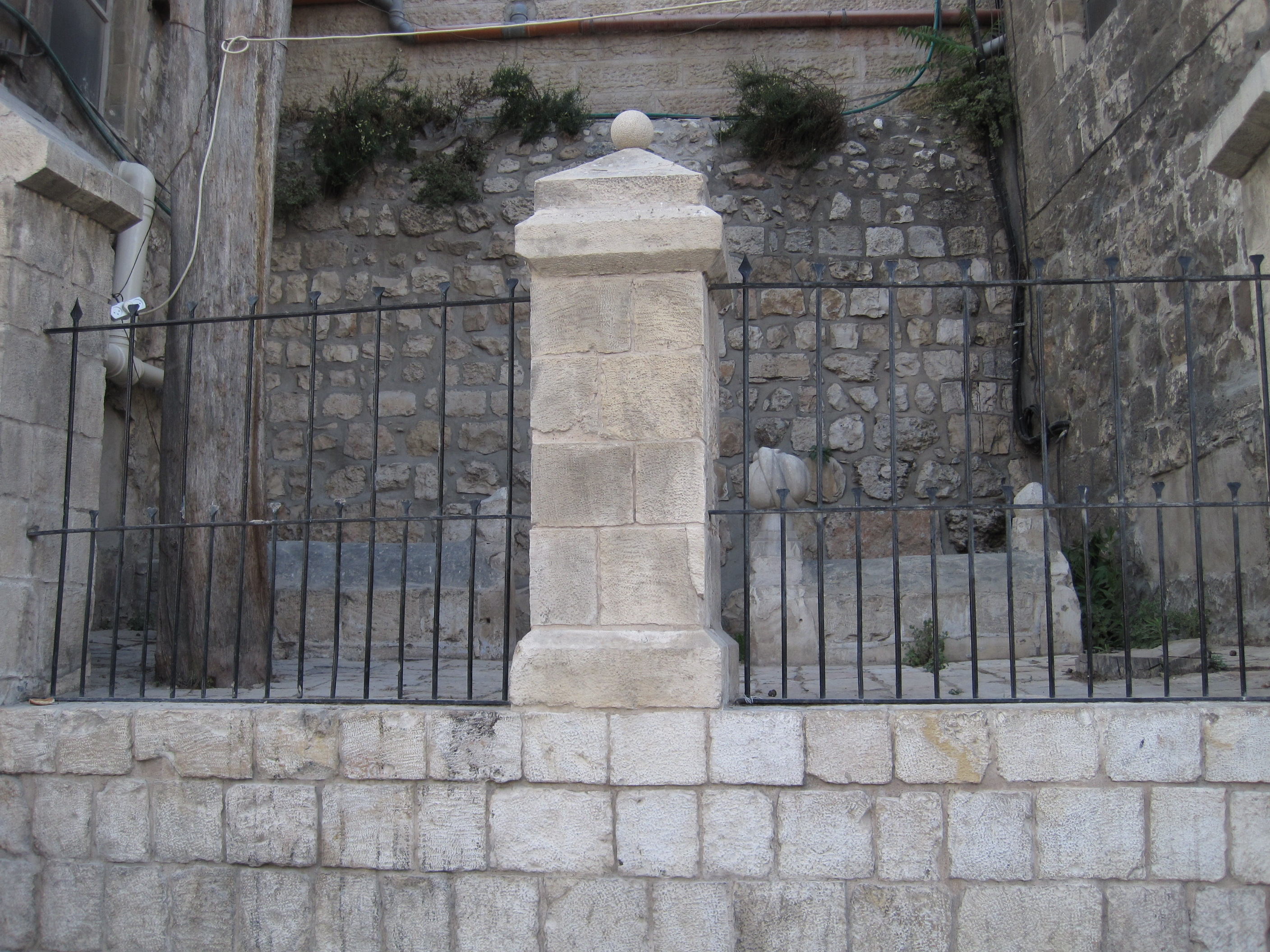 Two tombs believed to be those of the architects of the Old City walls. According to legend, Suleiman the Magnificent had them killed because they failed to include Mount Zion and the Tomb of King David within the Old City walls; as a mark of respect for their achievement, however, Suleiman had them buried within the walls, just inside Jaffa Gate